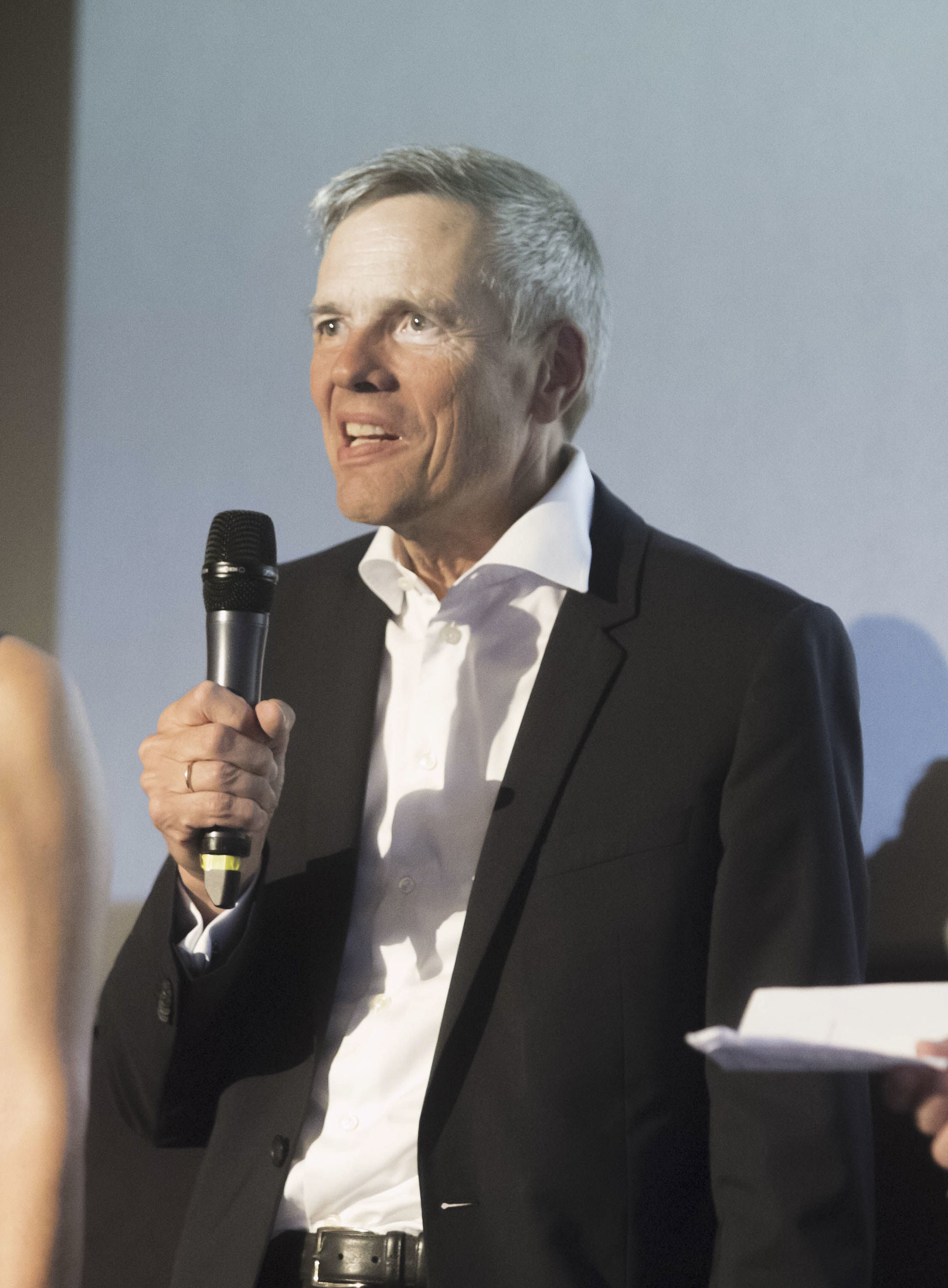 re:publica Thessaloniki 2017 - Day 1 Source: re:publica/Vassilis Ververidis